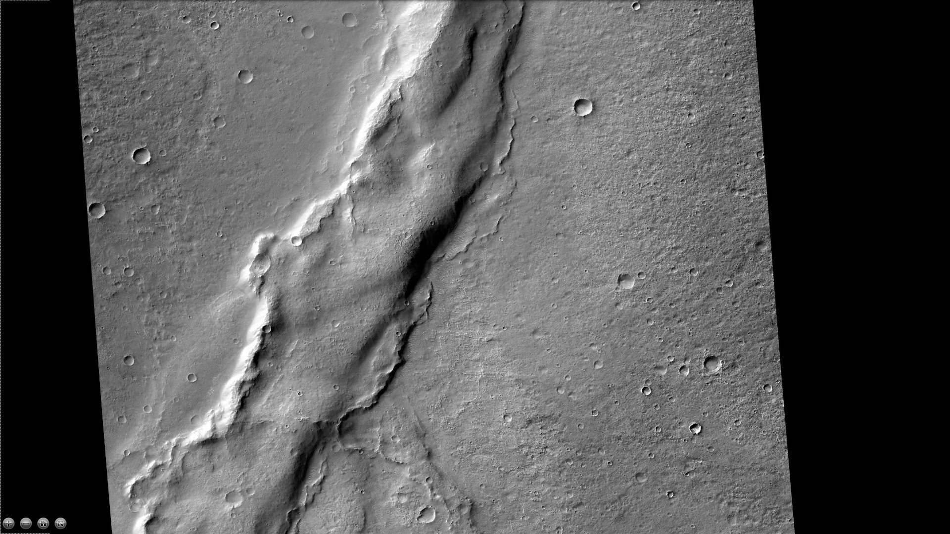 Wrinkle ridge in Coprates quadrangle, as seen by CTX